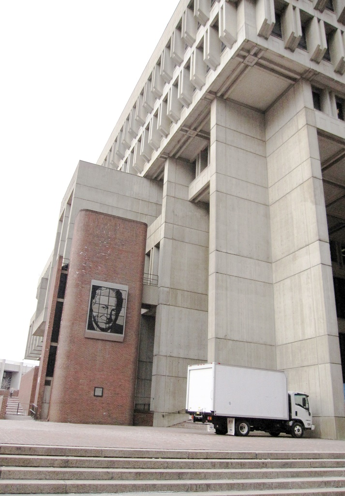 Boston City Hall